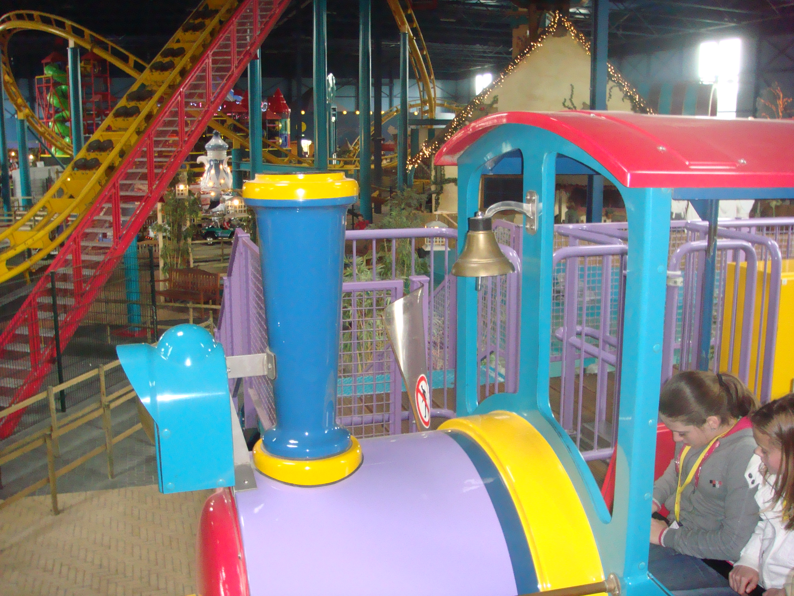 Roller coaster Boomerang at amusementspark Magic Land.